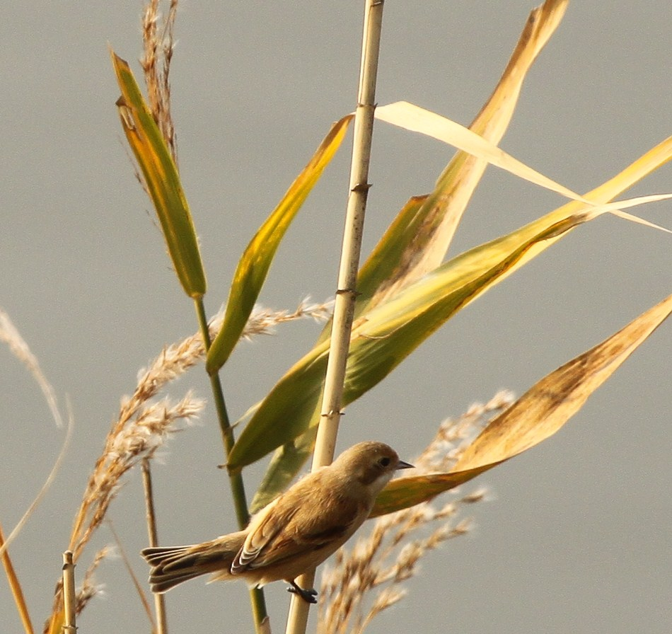 Chinese Penduline Tit Remiz consobrinus, southern Japan, November 2010.